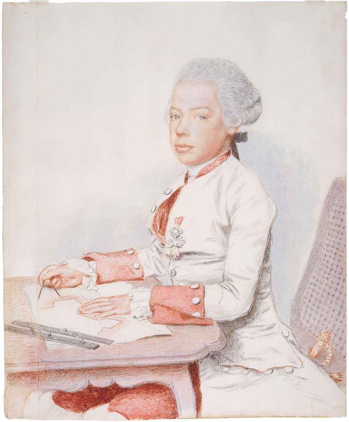 Archduke Peter Leopold, later Leopold II, Holy Roman Emperor, drawing the plan of a fortification